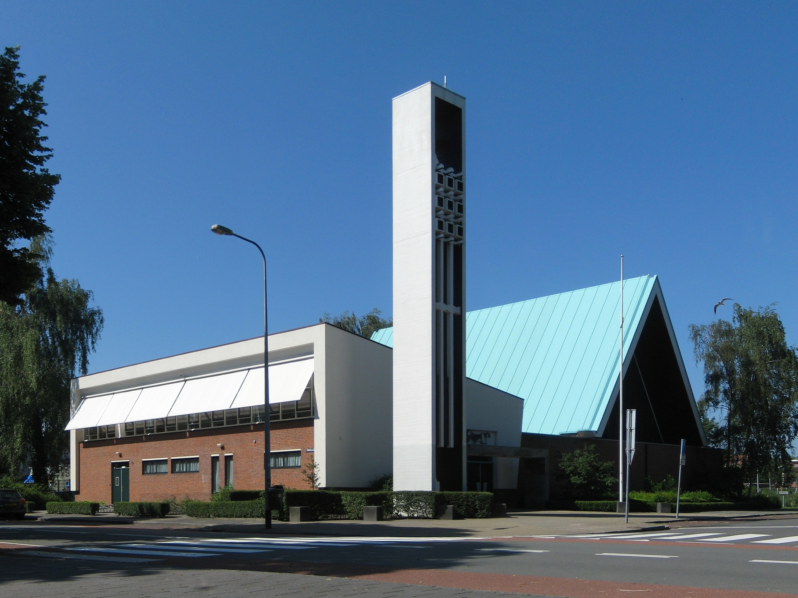 The Opstandingskerk (Resurrection Church) (1967) in the Dutch city of Groningen.